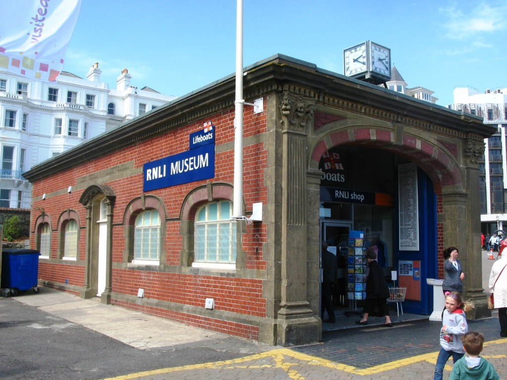 The old lifeboat station at Eastbourne, Sussex, England is now used as a museum and fund-raising shop.